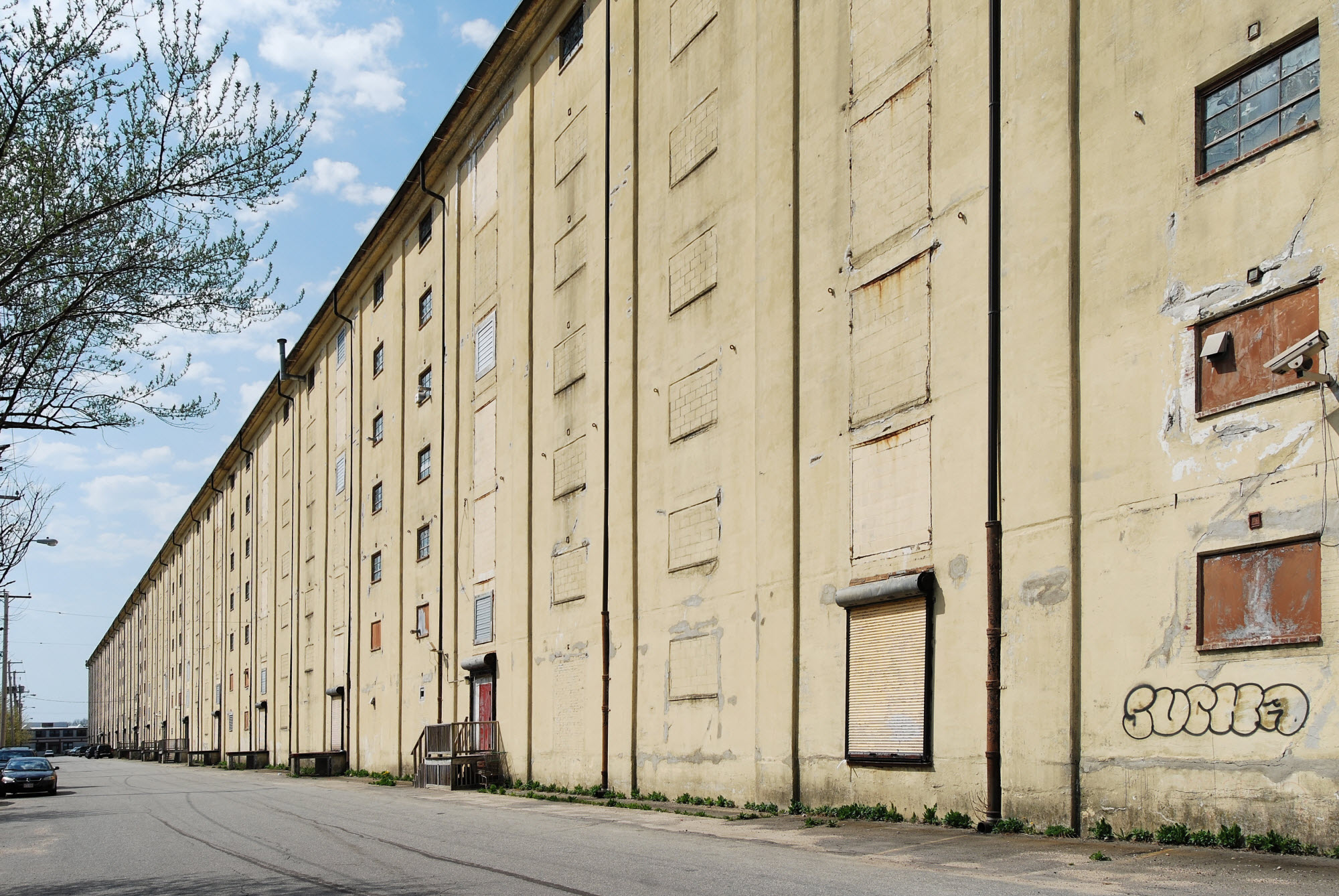 Belleville Warehouse, built 1916 to store cotton. New Bedford, Massachusetts